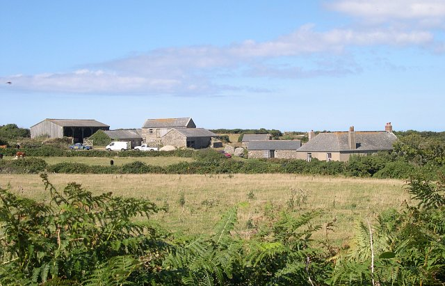 Treveal. A farm on the northern slope of the Penwith Peninsula.